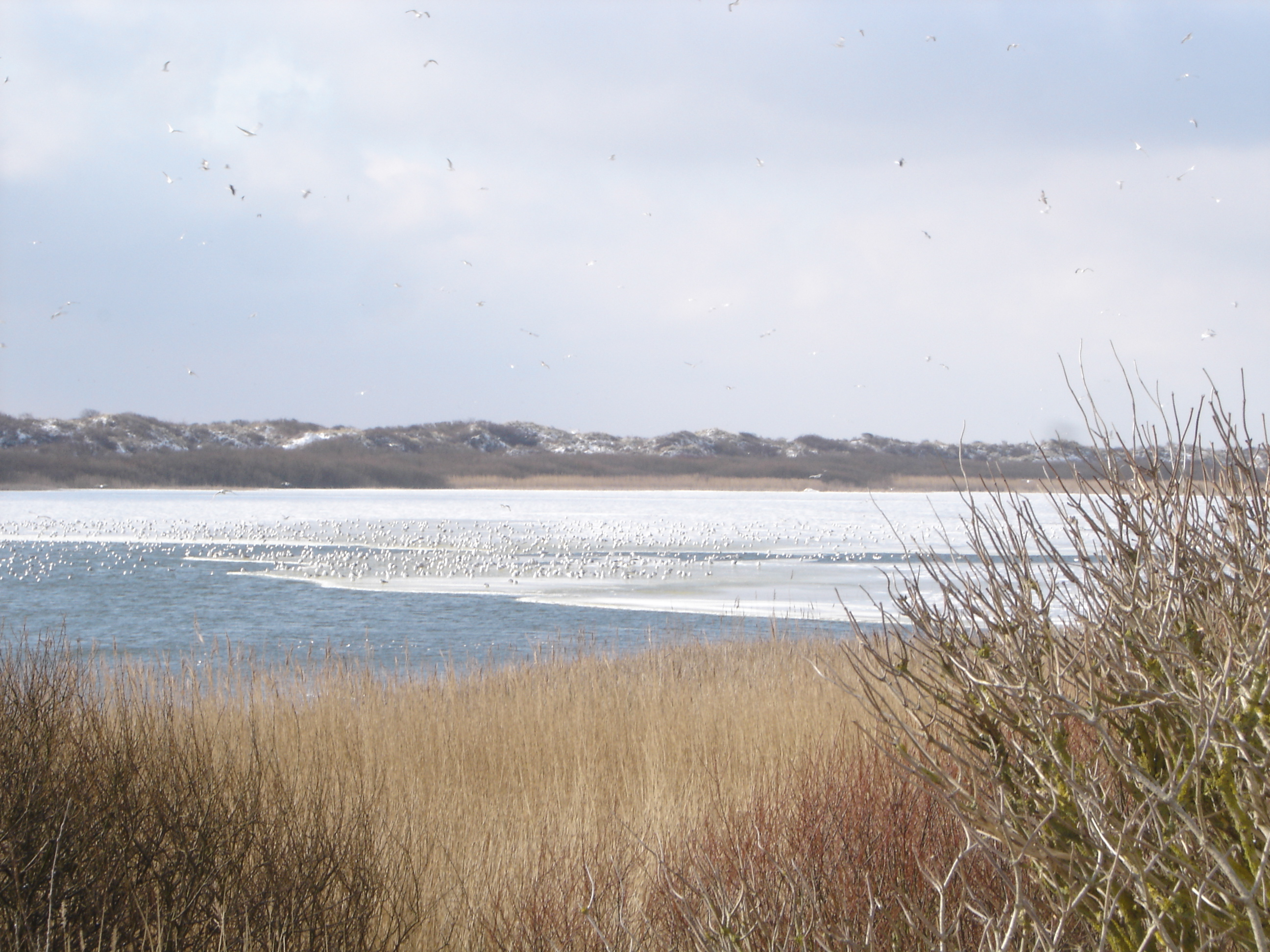 Lake Hammersee on Juist Island in Winter with several thousand seagulls on the ice.